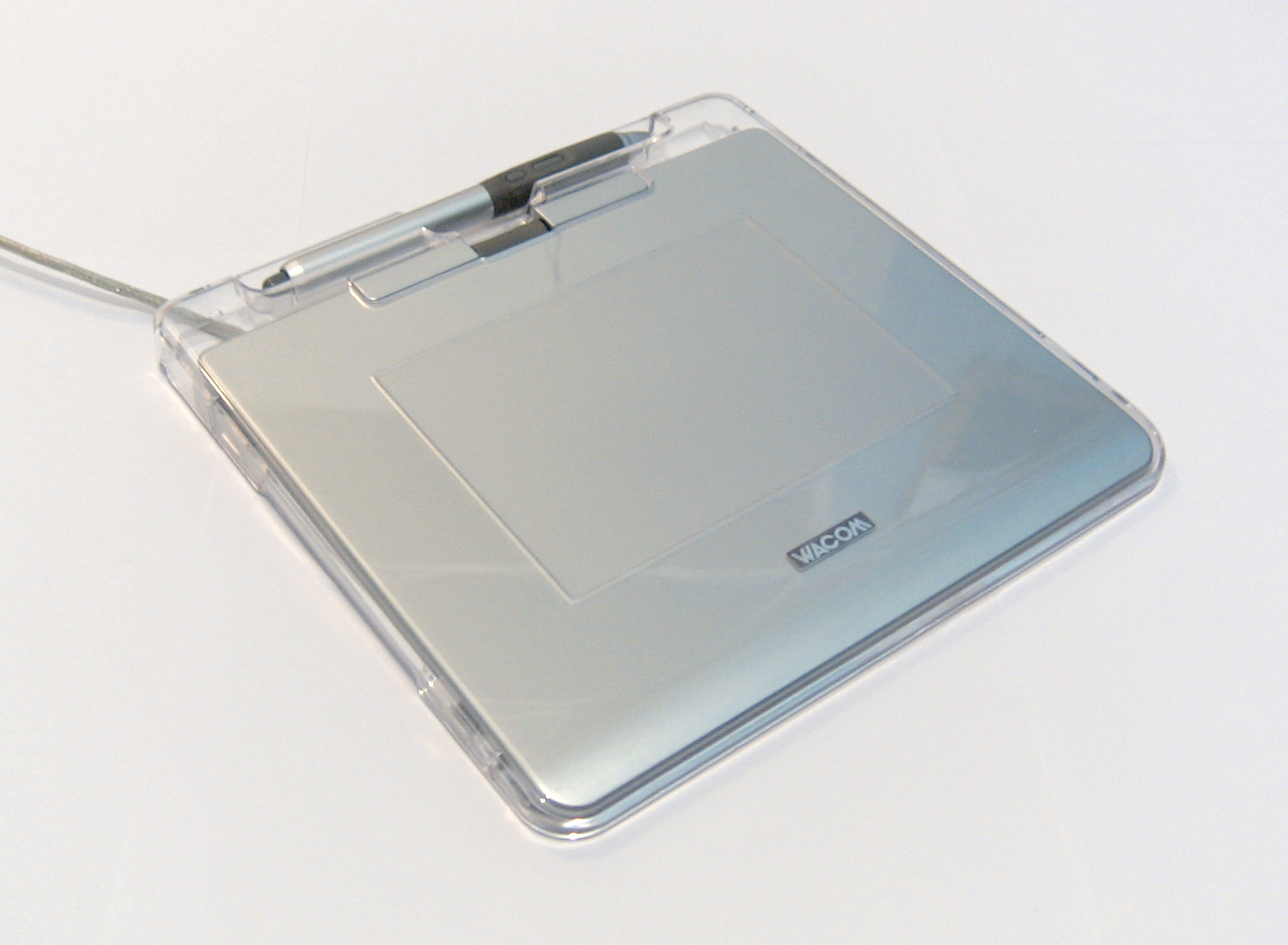 A Wacom Graphire4 USB pen tablet. Taken by me.